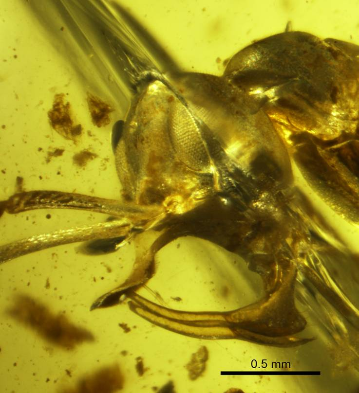 Profile view of a Linguamyrmex vladi worker head. Holotype specimen AMNH-BUPH01, Paleontology Department of the American Museum of Natural History, United States Burmese amber, Earliest Cenomanian; Kachin State, Myanmar